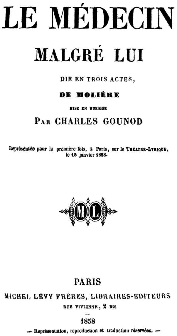 Gounod - Le Médecin malgré lui - title page of the libretto - Paris 1858